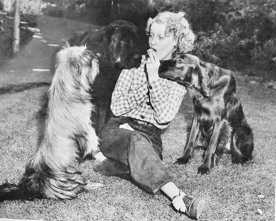 Actress Jeanette MacDonald playing with her three pet dogs in her garden